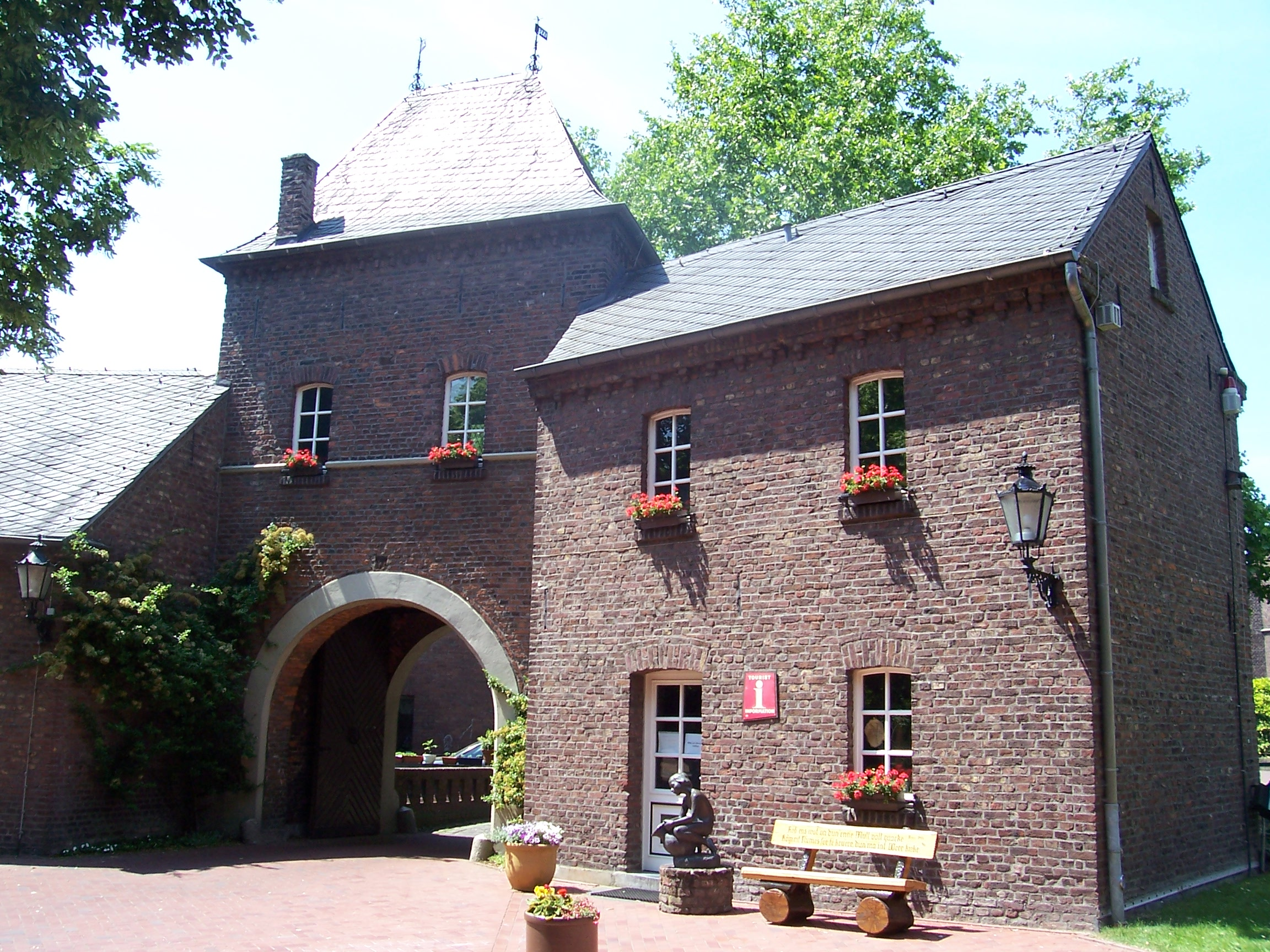 Gate Entrance to "Haus Issum", in Issum, Germany